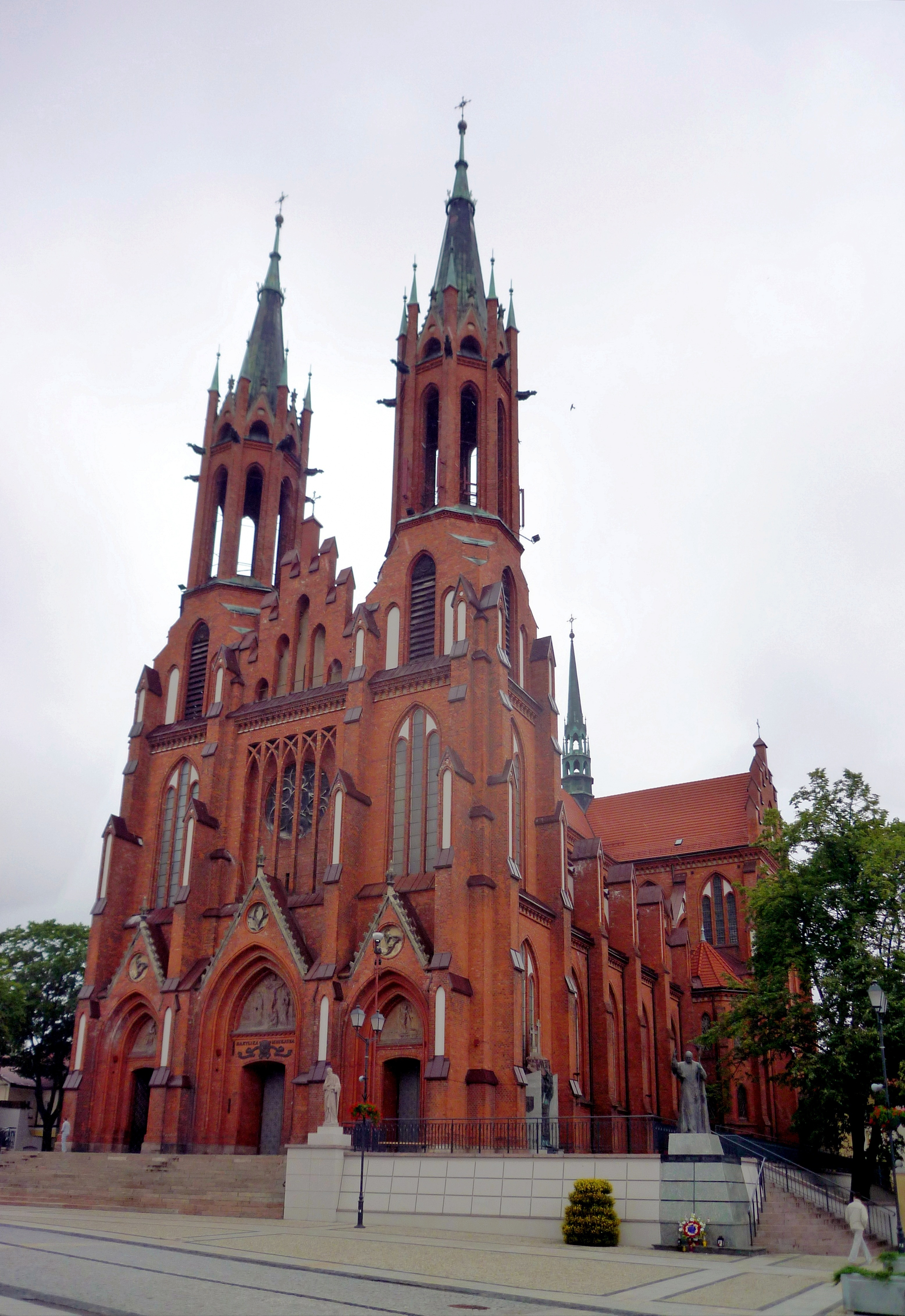 Białystok - catholic cathedral of the Assumption of the Blessed Virgin Mary